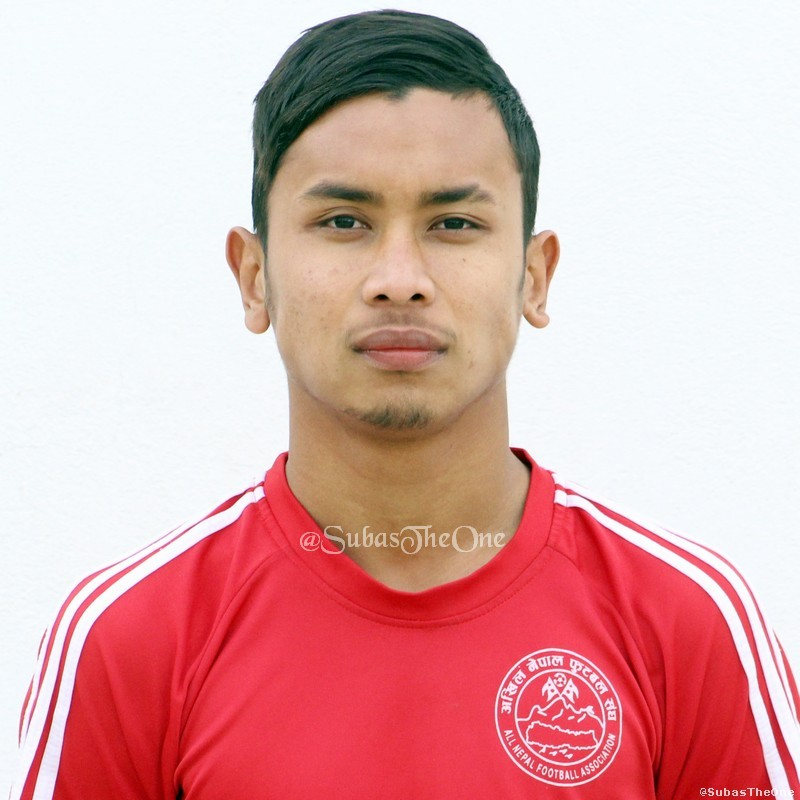 Portrait of Anjan Bista by Subas Humagain